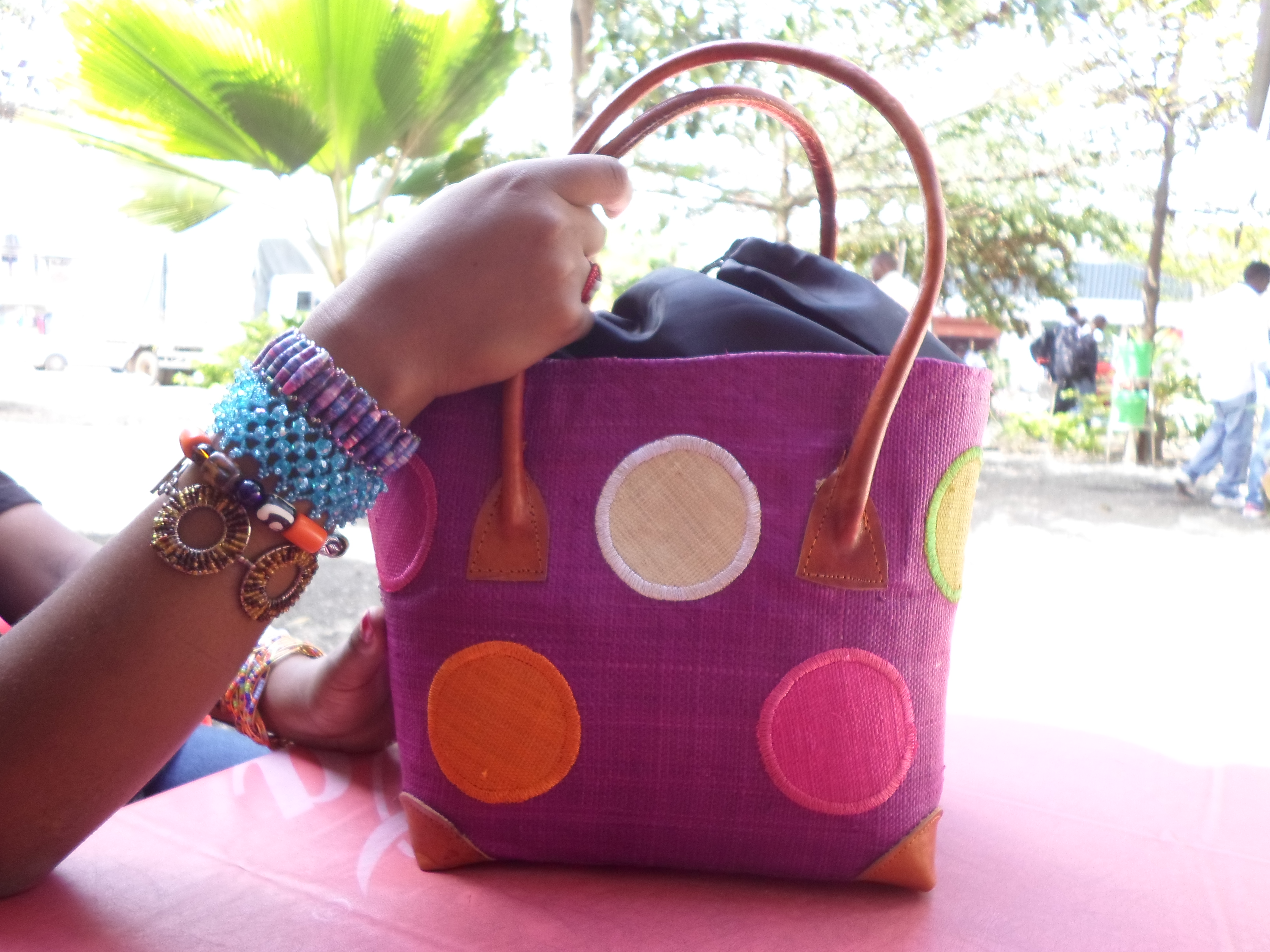 Beautifully designed made out of sisal material This is an image of Cultural Fashion or Adornment from Tanzania